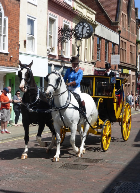 Post chaise in Preston Street, FavershamThe arrival of the post chaise bearing Major Percy and Commander James White RN with news of The Battle of Waterloo.